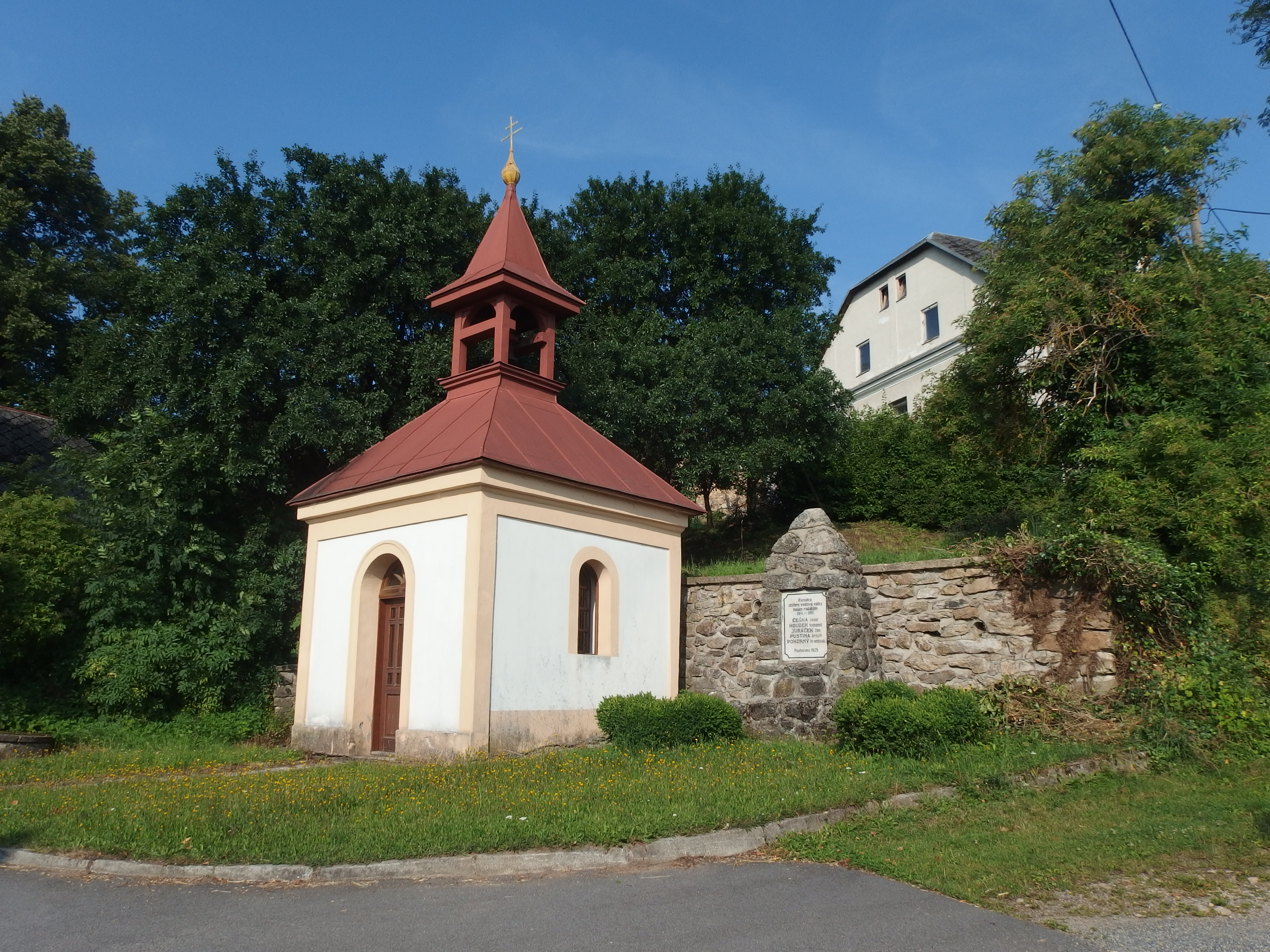 Lísek, Žďár nad Sázavou District, part Vojtěchov.